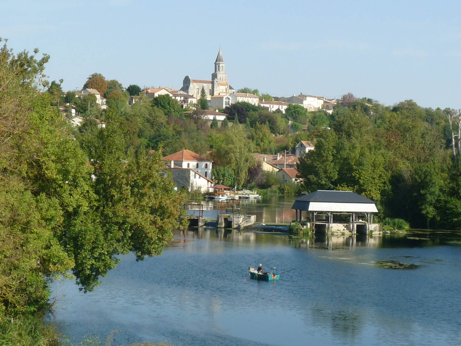 the river Charente and St-Simeux, Charente, SW France